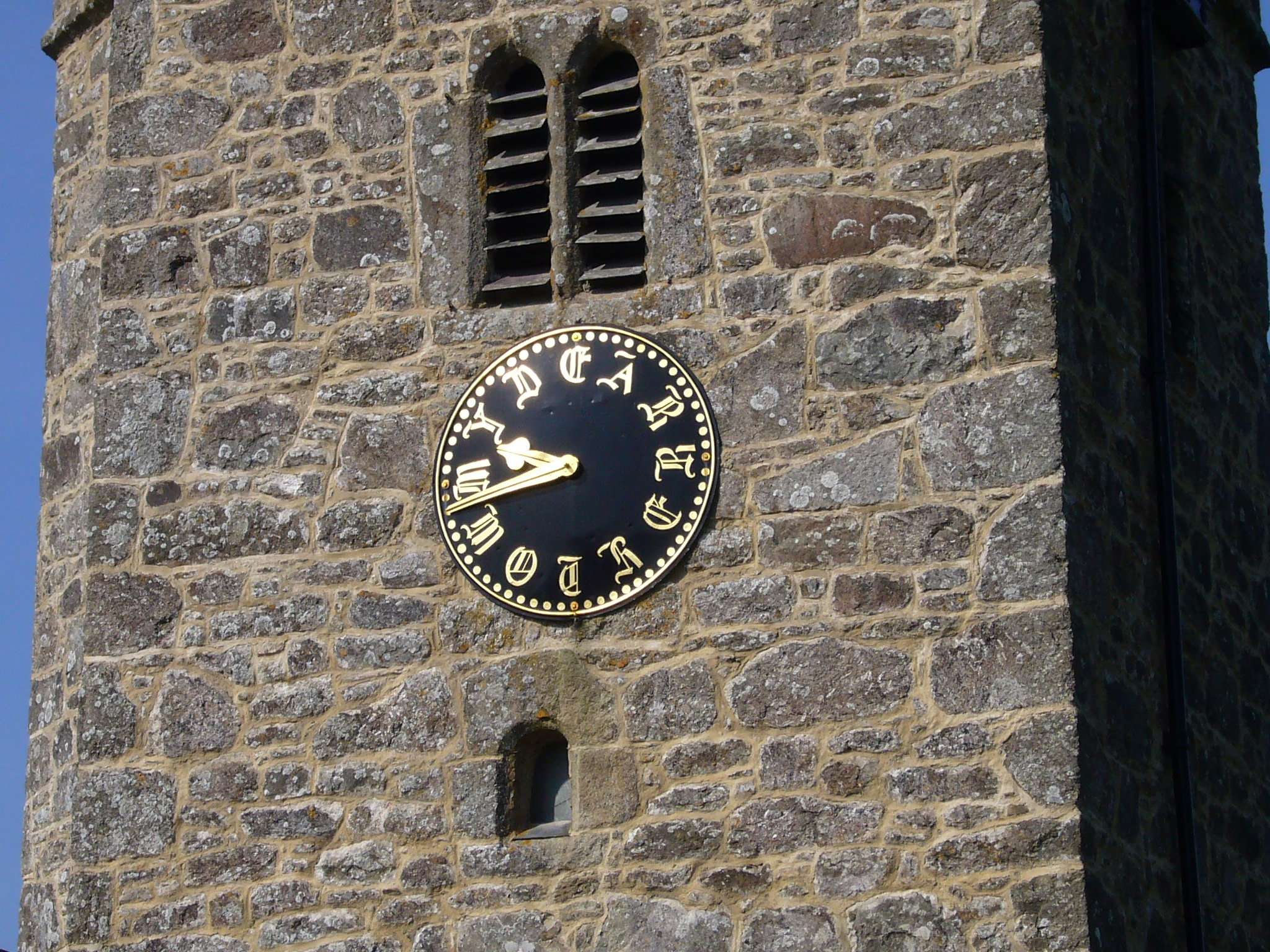 Clock face of the church at Buckland in the Moor which has "My Dear mother" in place of numbers around the clock face.